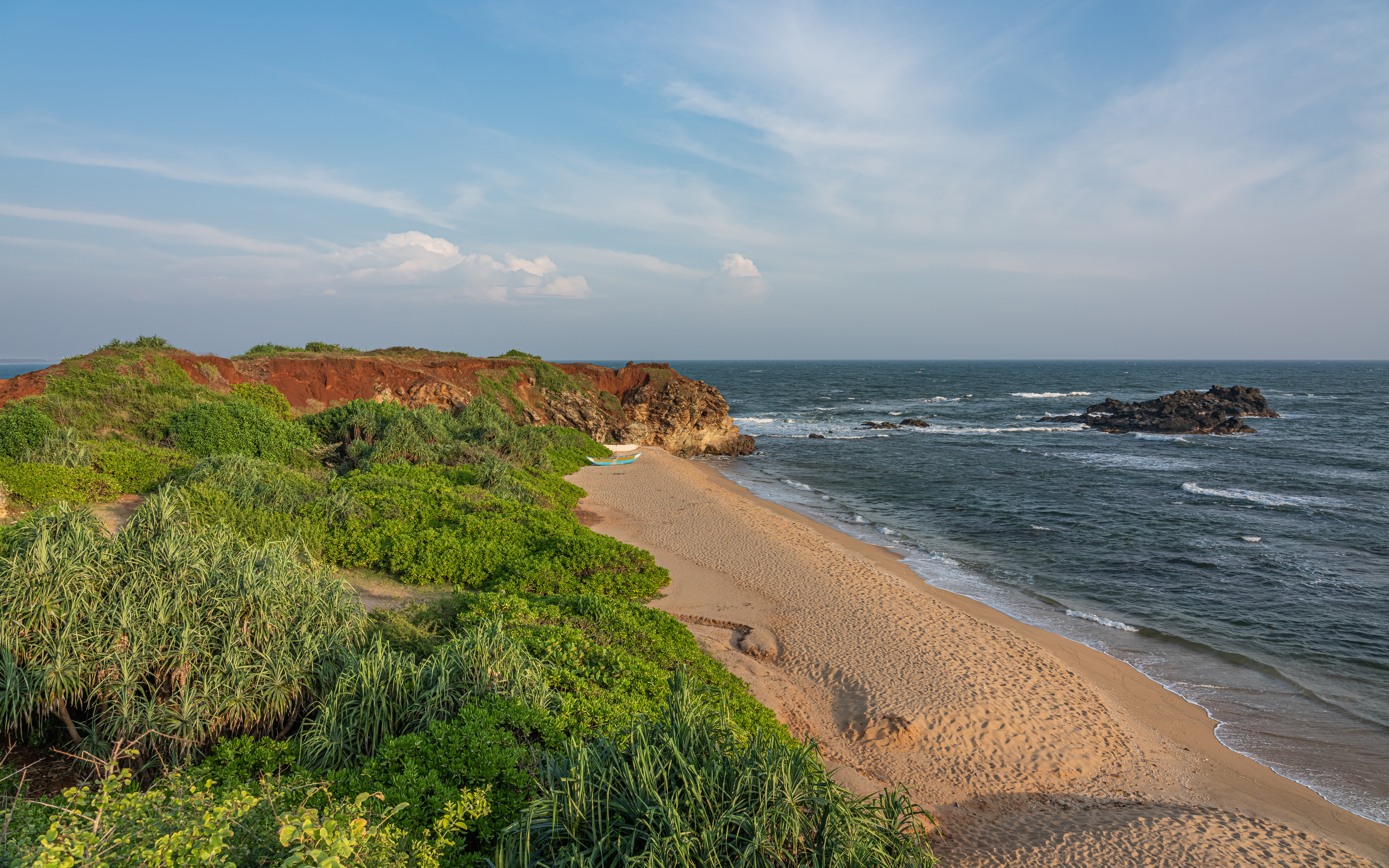 Landscape in Ussangoda National Park, Sri Lanka